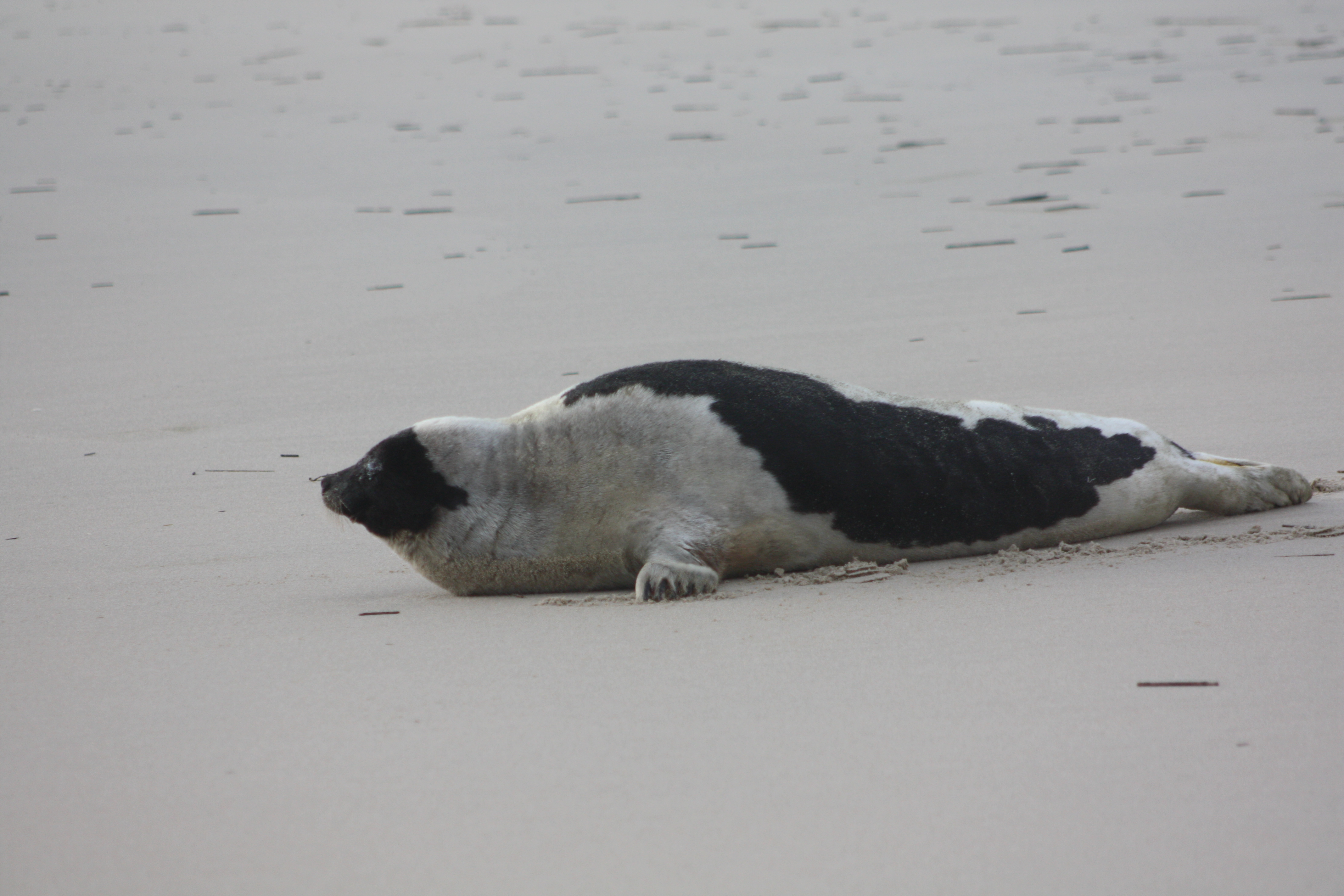 False Cape Harp Seal eNews 05/13/11